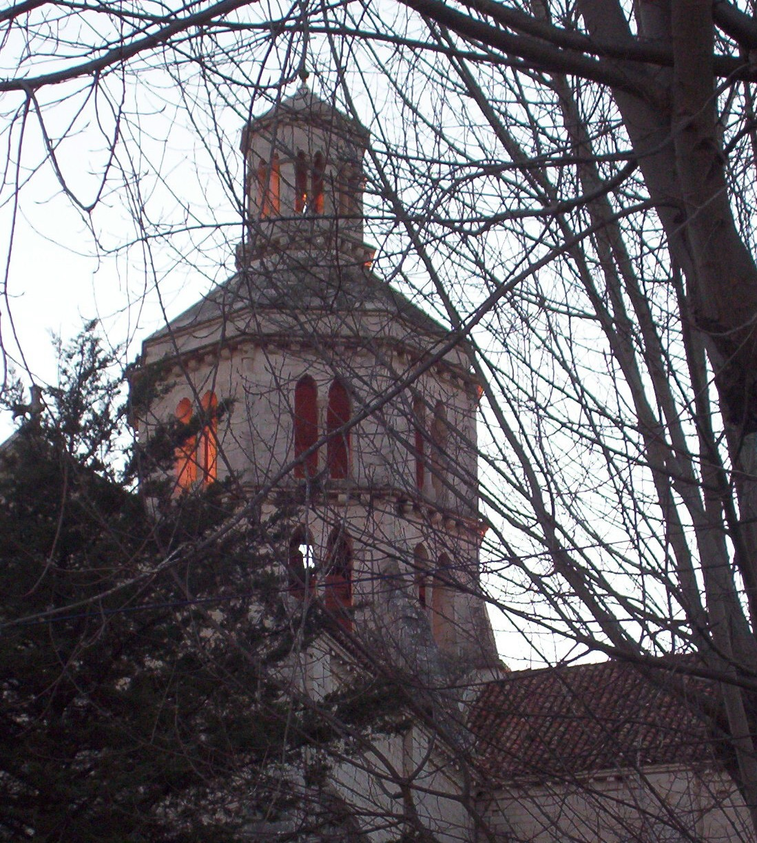 see above